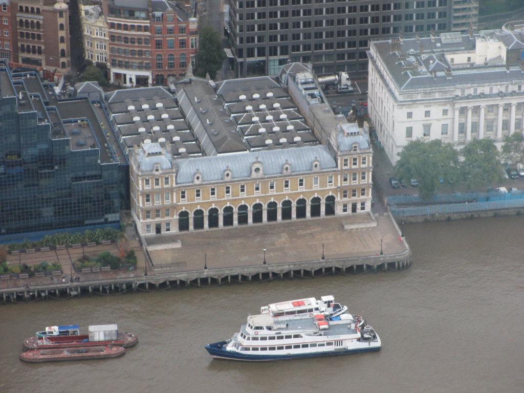 Old Billingsgate from the Shard